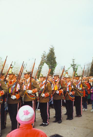 Turki in Grodzisko Górne (Poland)